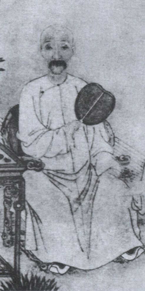 Hong Liangji (Chinese: 洪亮吉; pinyin: Hóng Liàngjí; Wade–Giles: Hung Liangchi, 1746–1809), courtesy names Junzhi (君直) and Zhicun (稚存), was a Chinese scholar, statesman, political theorist, and philosopher. He was most famous for his critical essay to the Jiaqing Emperor, which resulted in his banishment to Yili in Xinjiang.